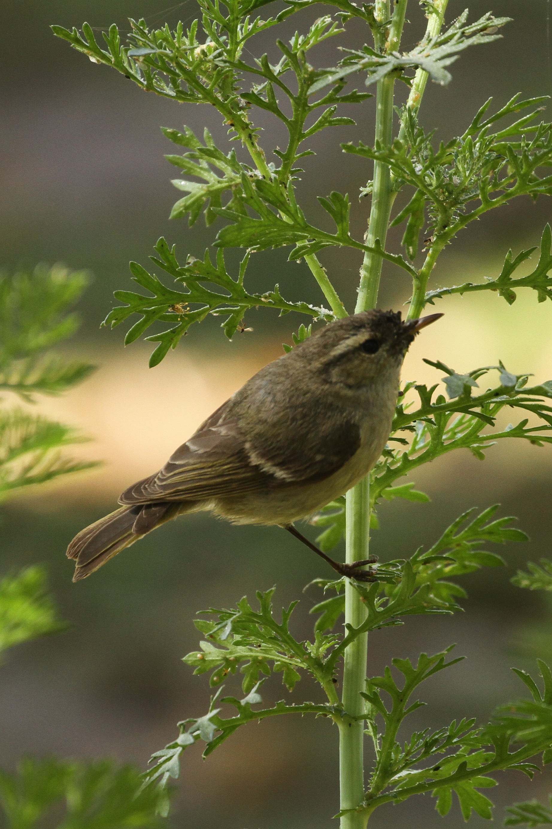 Birds of India